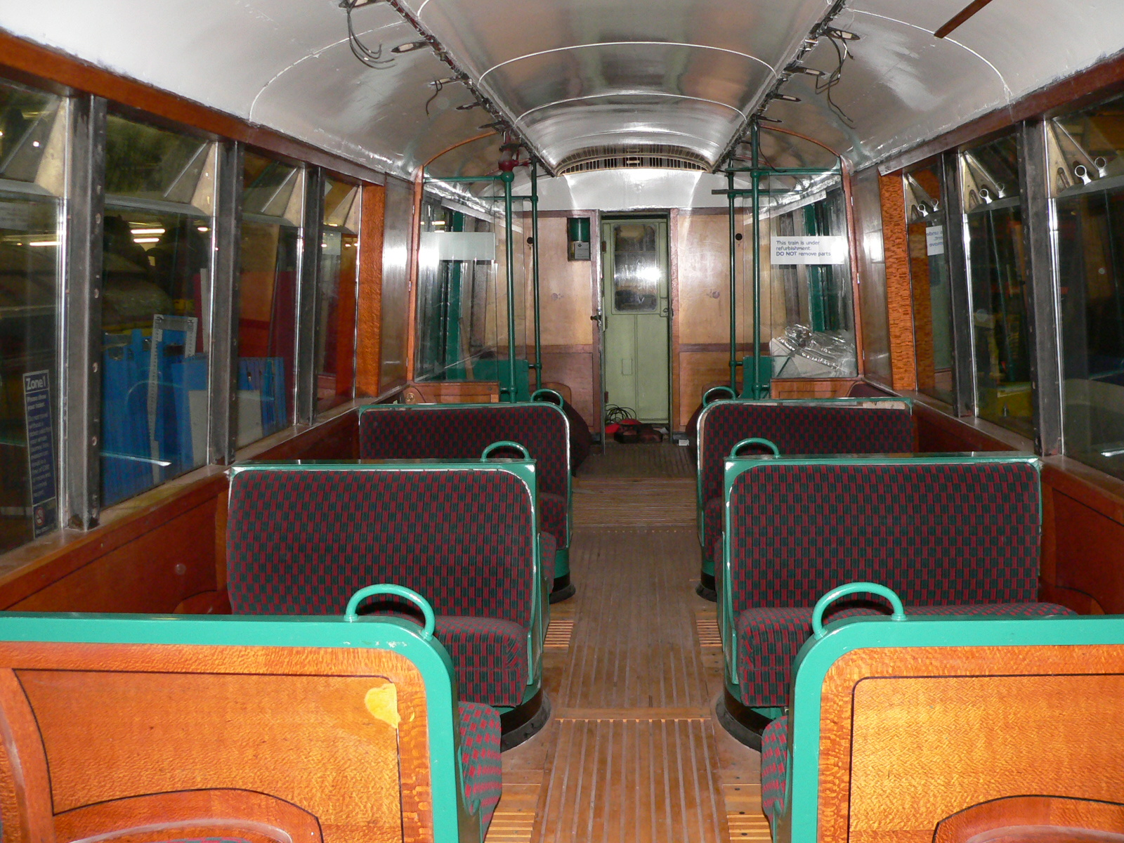 The interior of a London Underground Q35 Stock trailer car at London's Transport Museum depot, 22 October 2005.